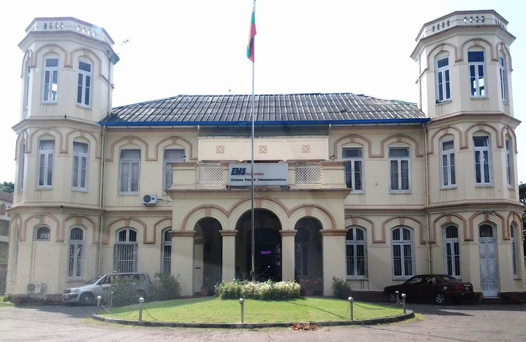 Sarpay Beikman House, 361 Pyay Road, Sanchaung, now owned by Ministry of Communications and Information Technology